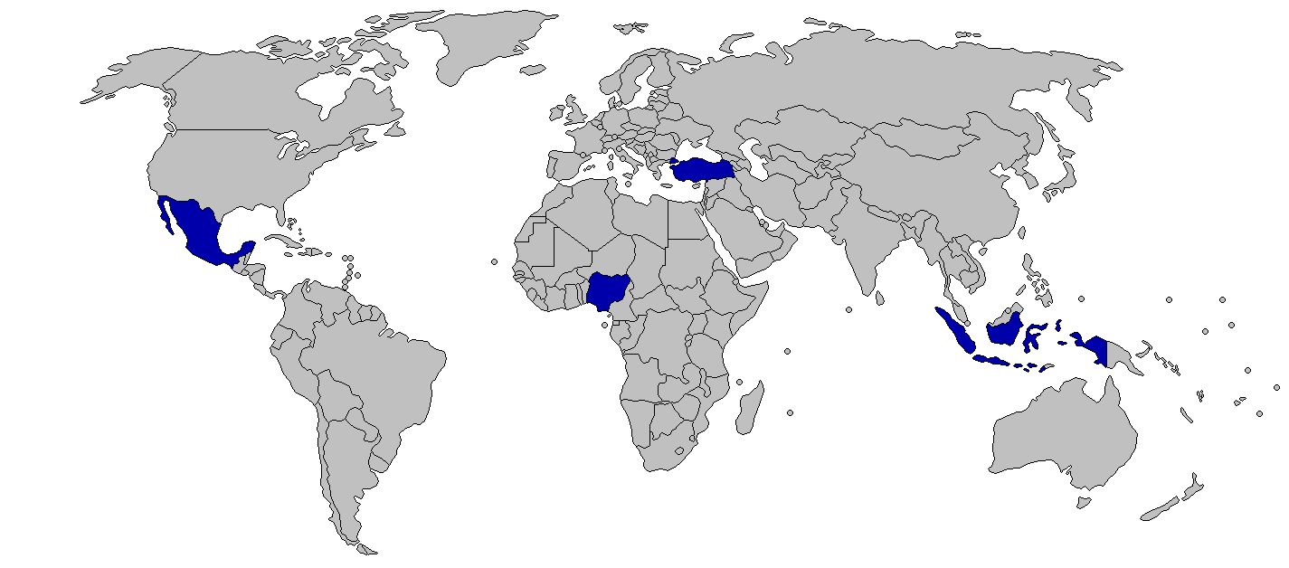 MINT MINT - Mexico, Indonesia, Nigeria, Turkey